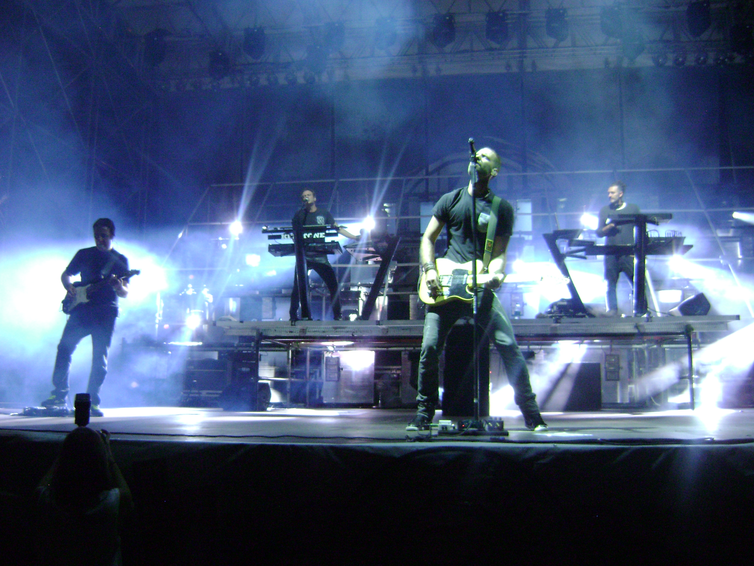 Planet Funk live in Cassino